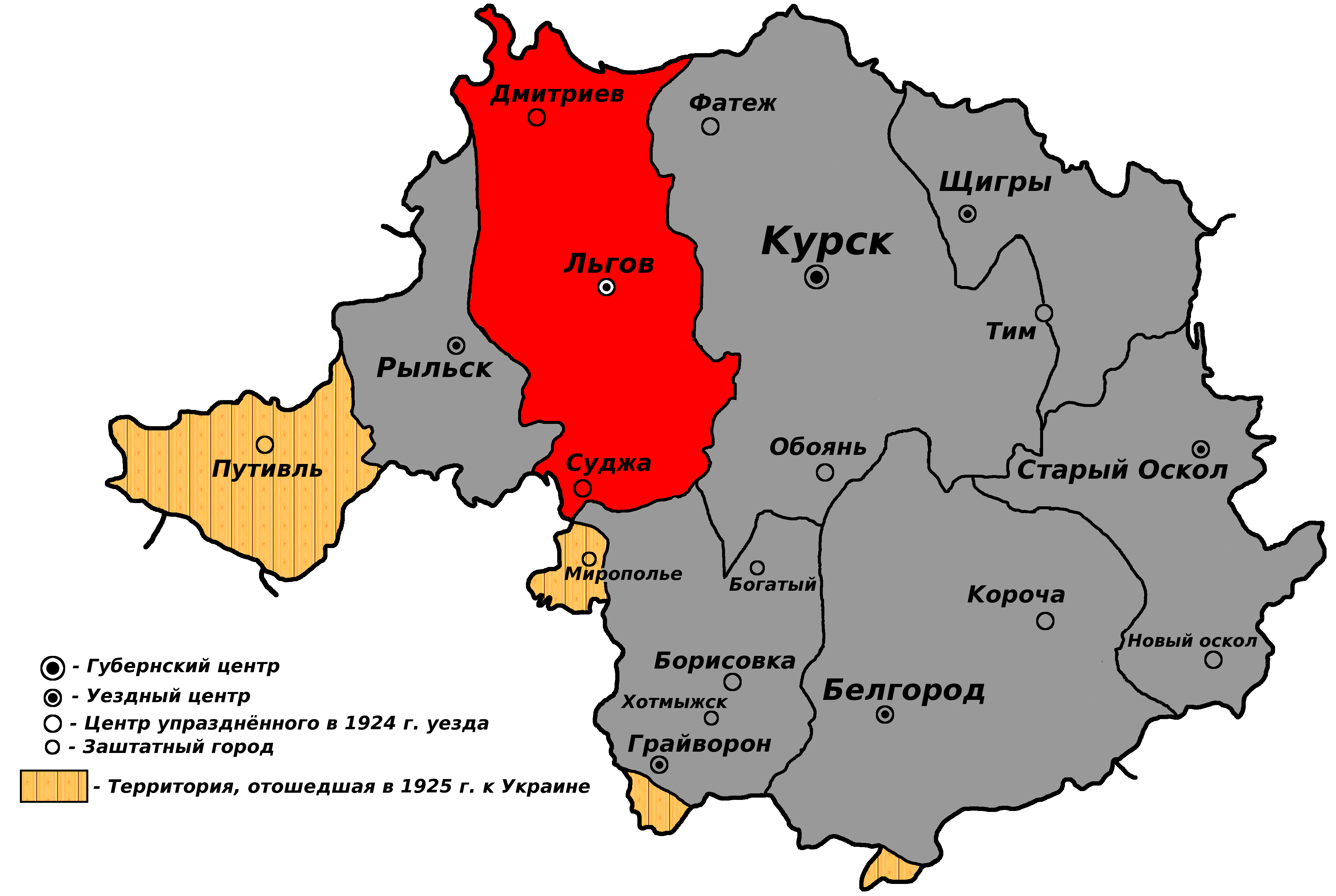 Kursk gubernia (RSFSR, 1924-1928), Lgovsky_uyezd